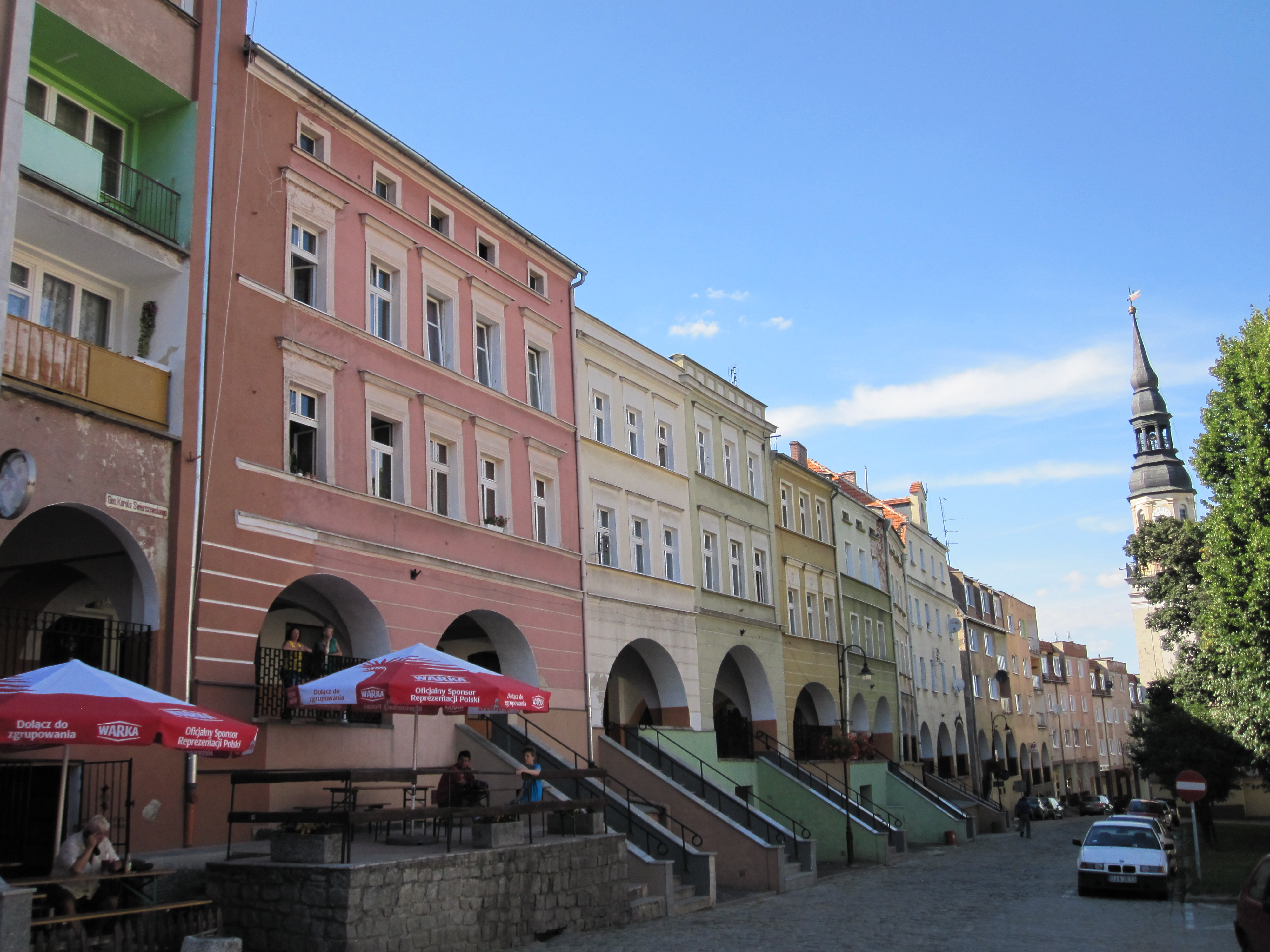 Buildings in Bolków